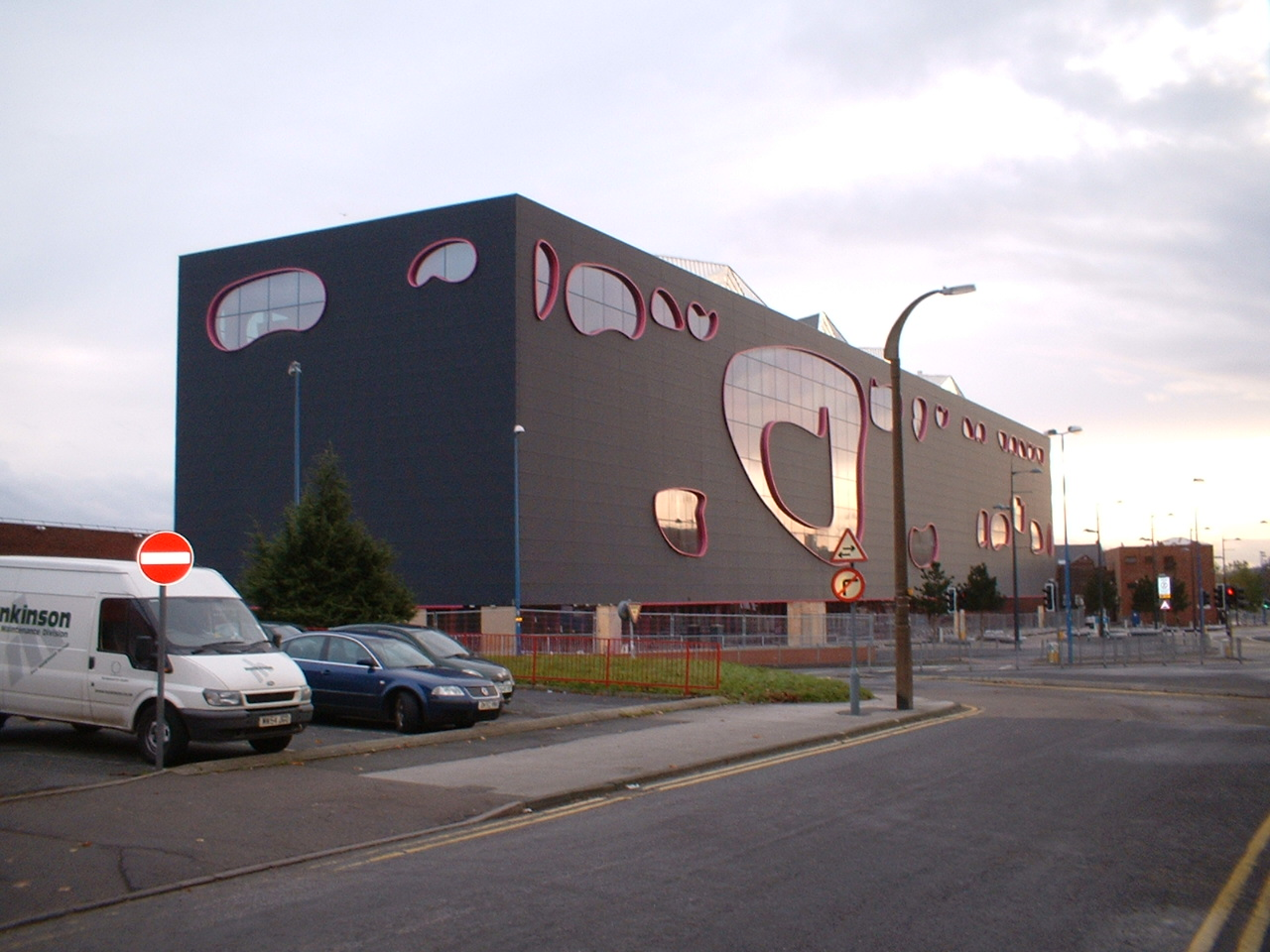 The Public, West Bromwich, view from north